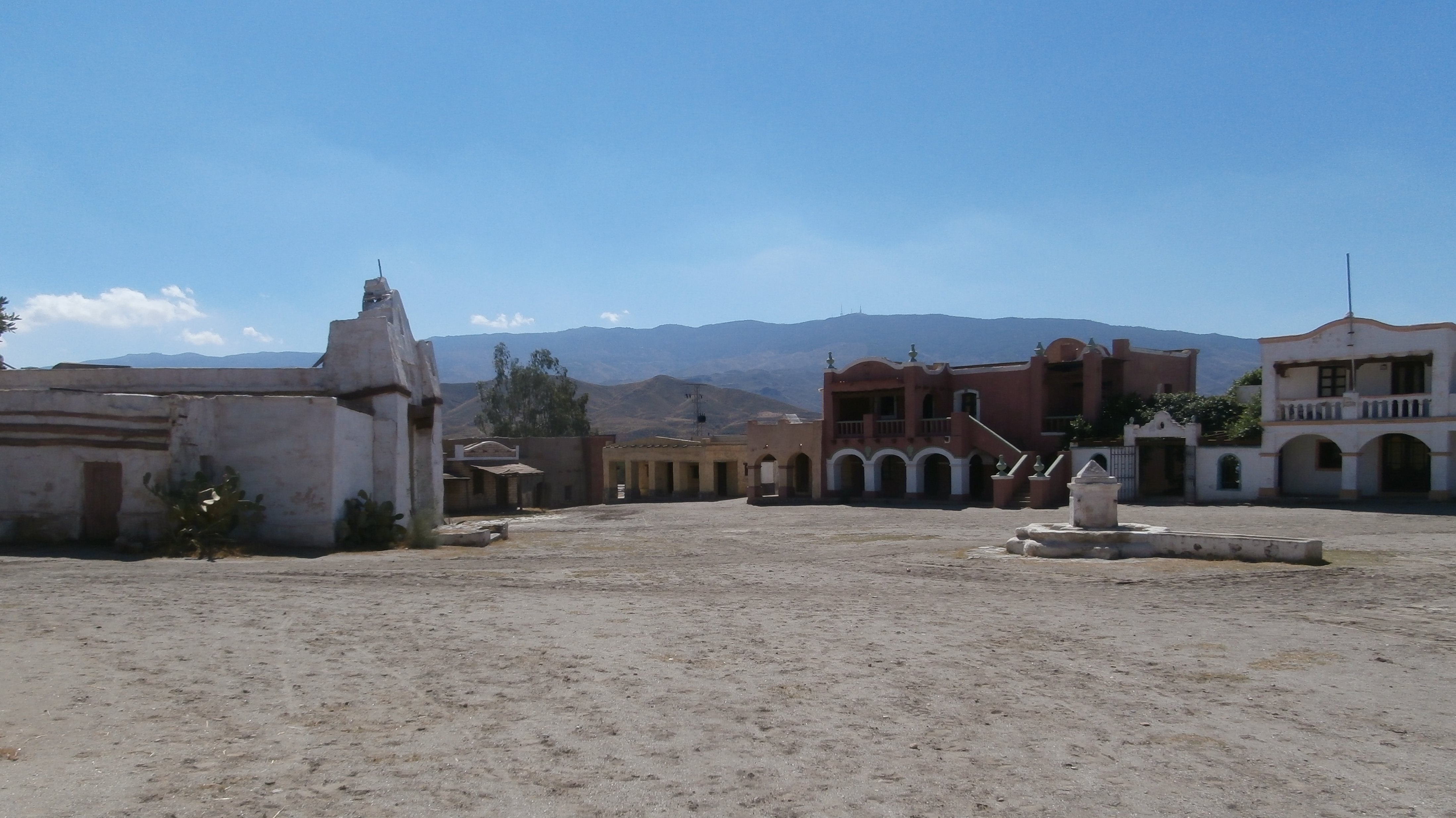 Spanish town square Fort Bravo Texas Hollywood September 2013